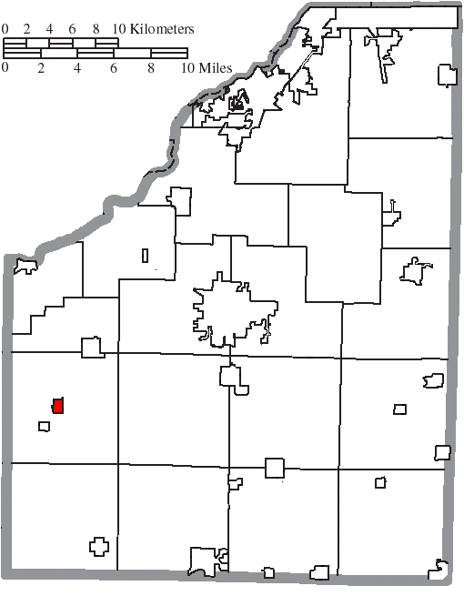 Map of the municipal and township boundaries of Wood County, Ohio, United States, as of the 2000 census, with the location of the village of Milton Center highlighted. Township borders are shown only in unincorporated areas in order to differentiate incorporated and unincorporated areas more clearly.